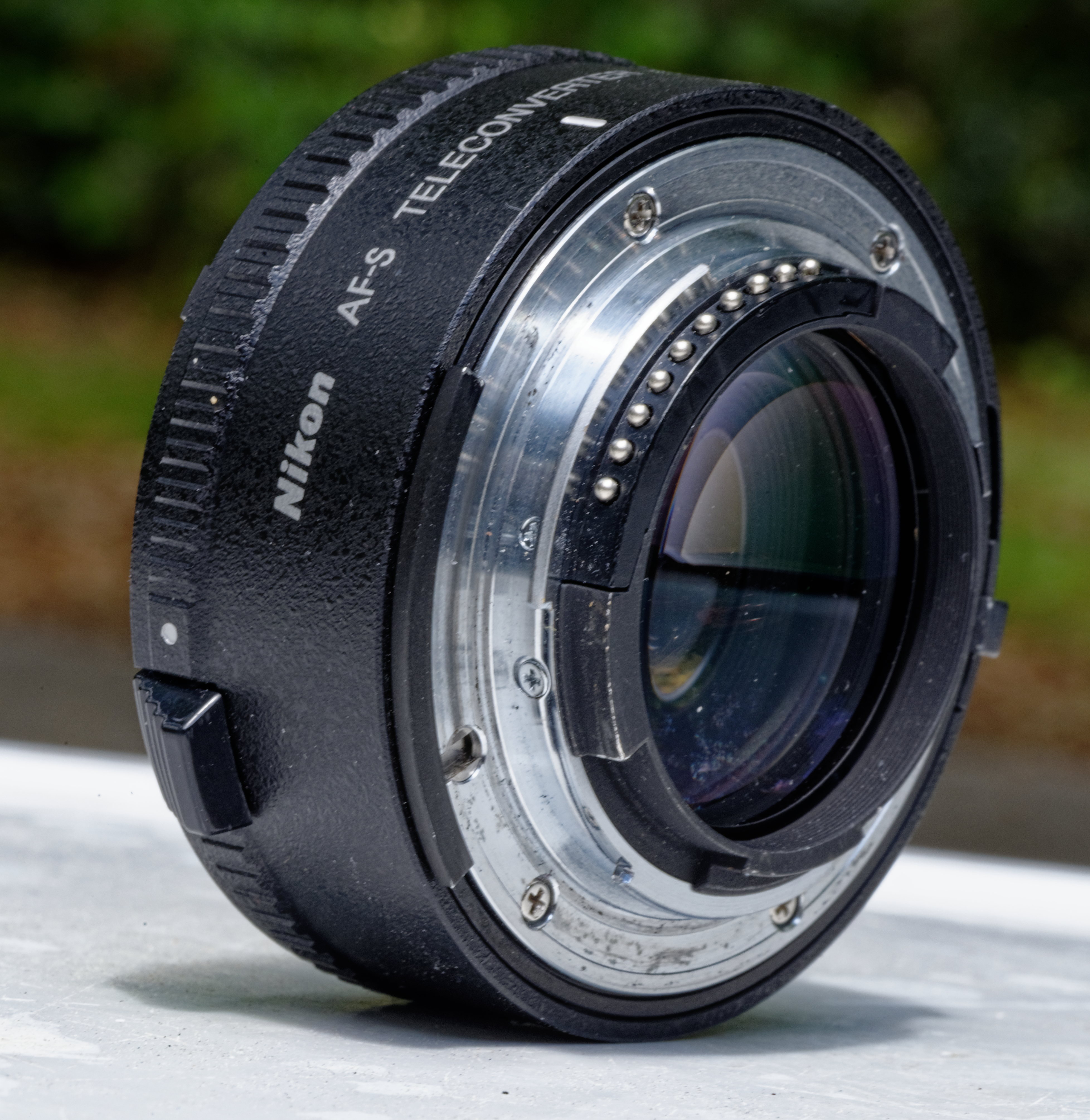 Nikon TC-14EII teleconverter